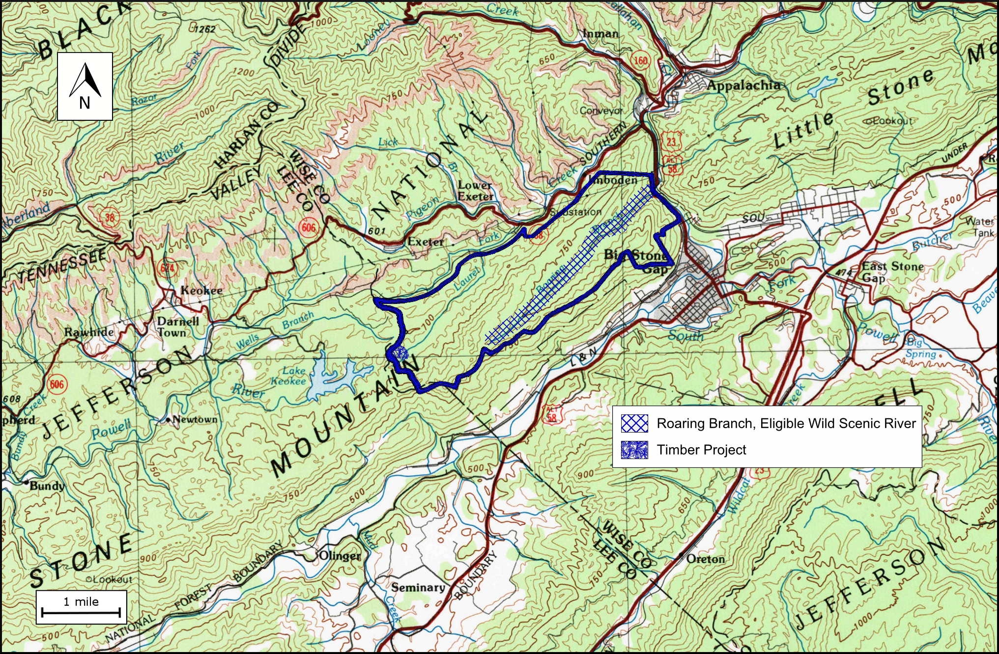 Boundary the Roaring Branch wildland as identified by the Wilderness Societiy